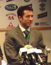 Photo taken at press launch at Hibs Easter Road by Henry Wood